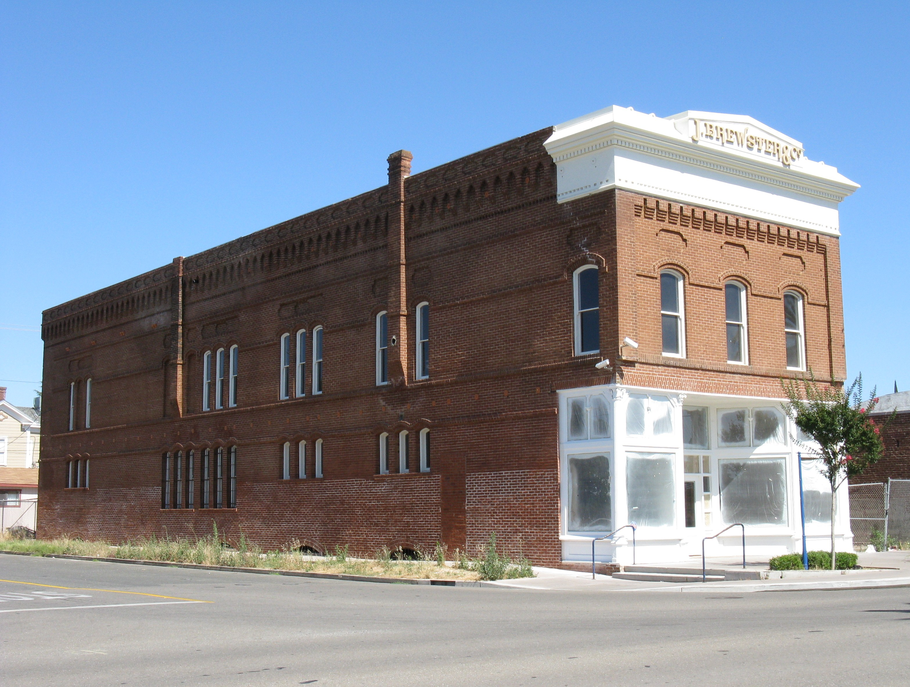 The Brewster Building (Oddfellows Hall) in Galt, California following restoration. This building is on the national Register of historic Places.